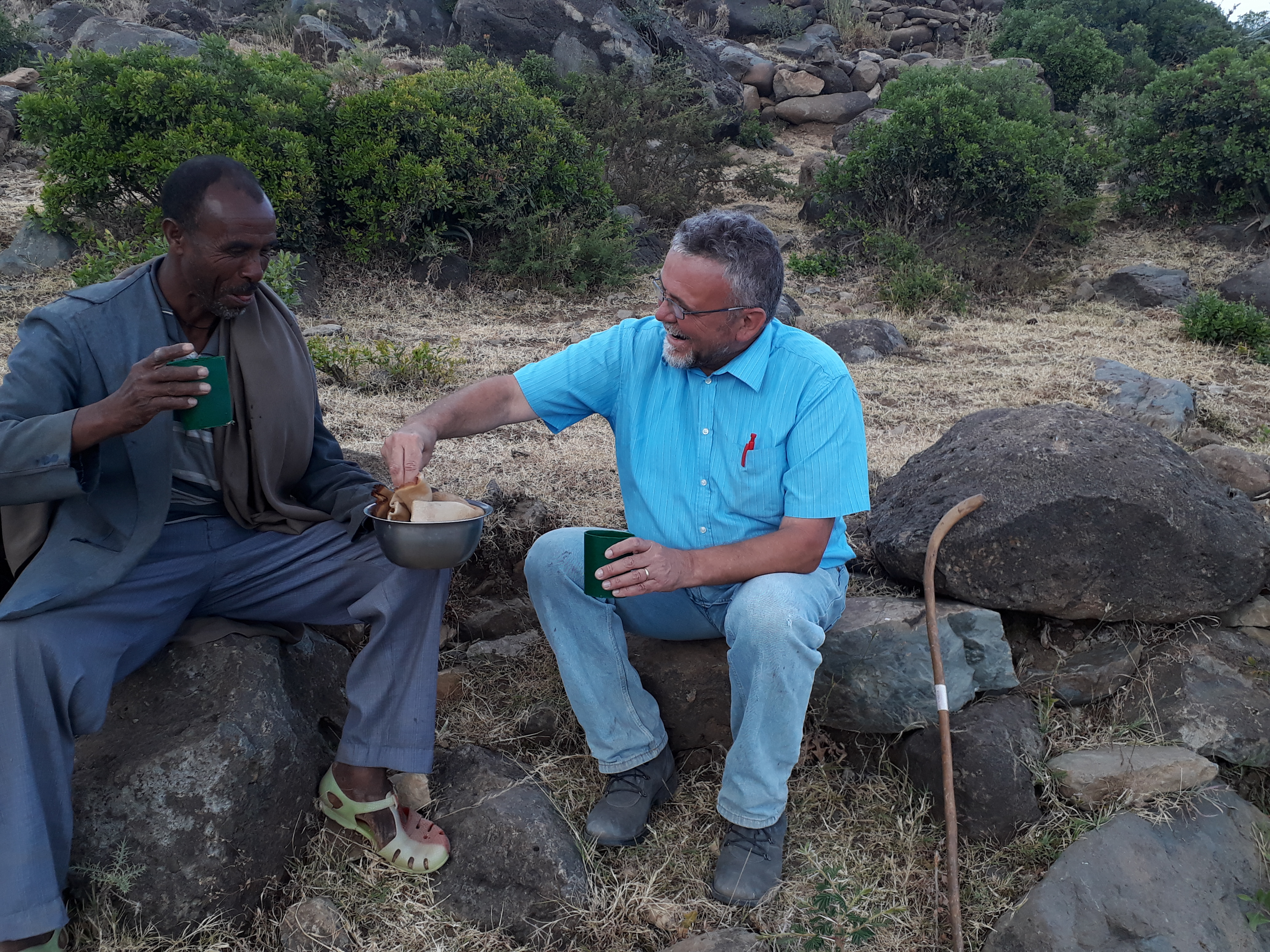 Siwa invitation at Lafa, Dogu'a Tembien, Ethiopia